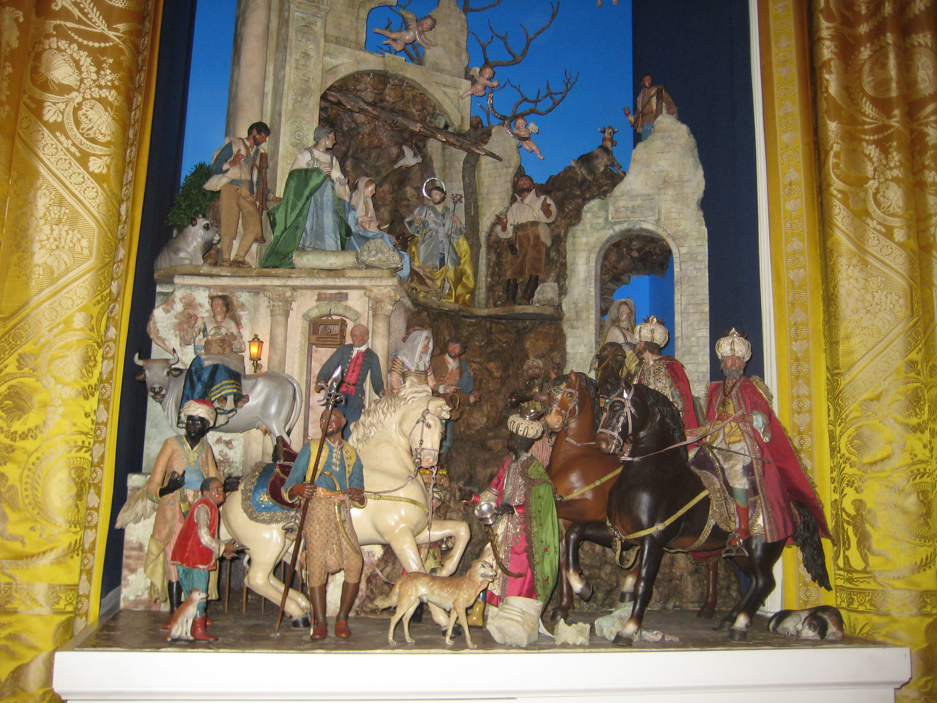 Image of the White House nativity scene taken in Franklin McPherson Square.